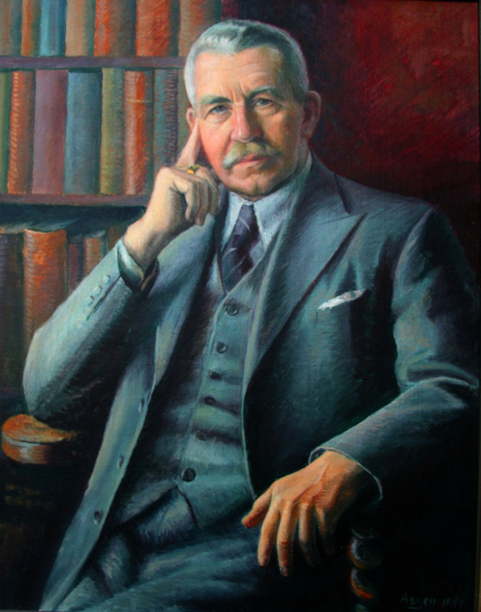 This is a photograph of a portrait of my grandfather Agust H. Bjarnason professor. I own personally the original. I made the photograph myself.